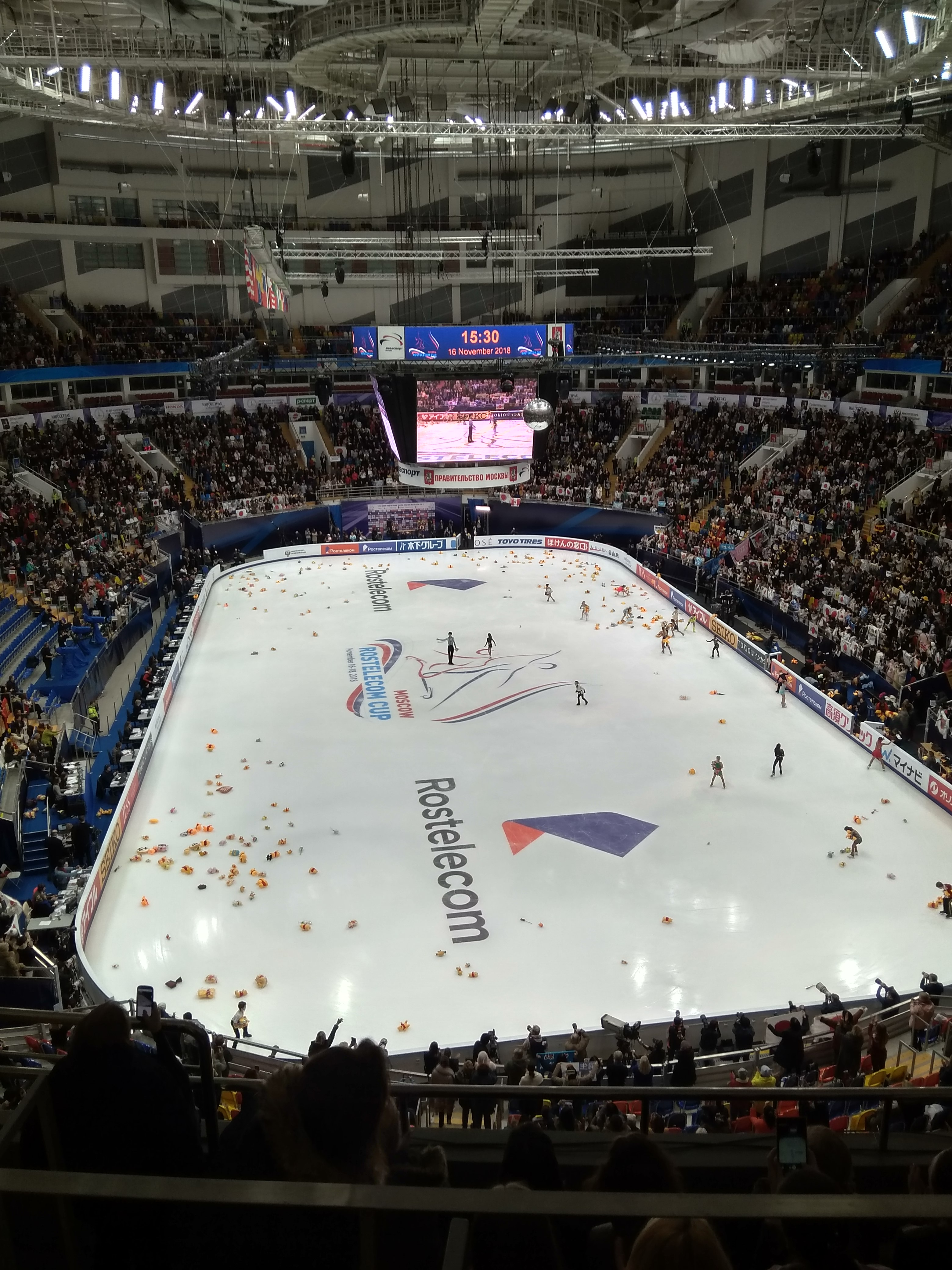 Yuzuru Hanyu after skating his short program at the 2018 Rostelecom Cup (Grand-Prix)